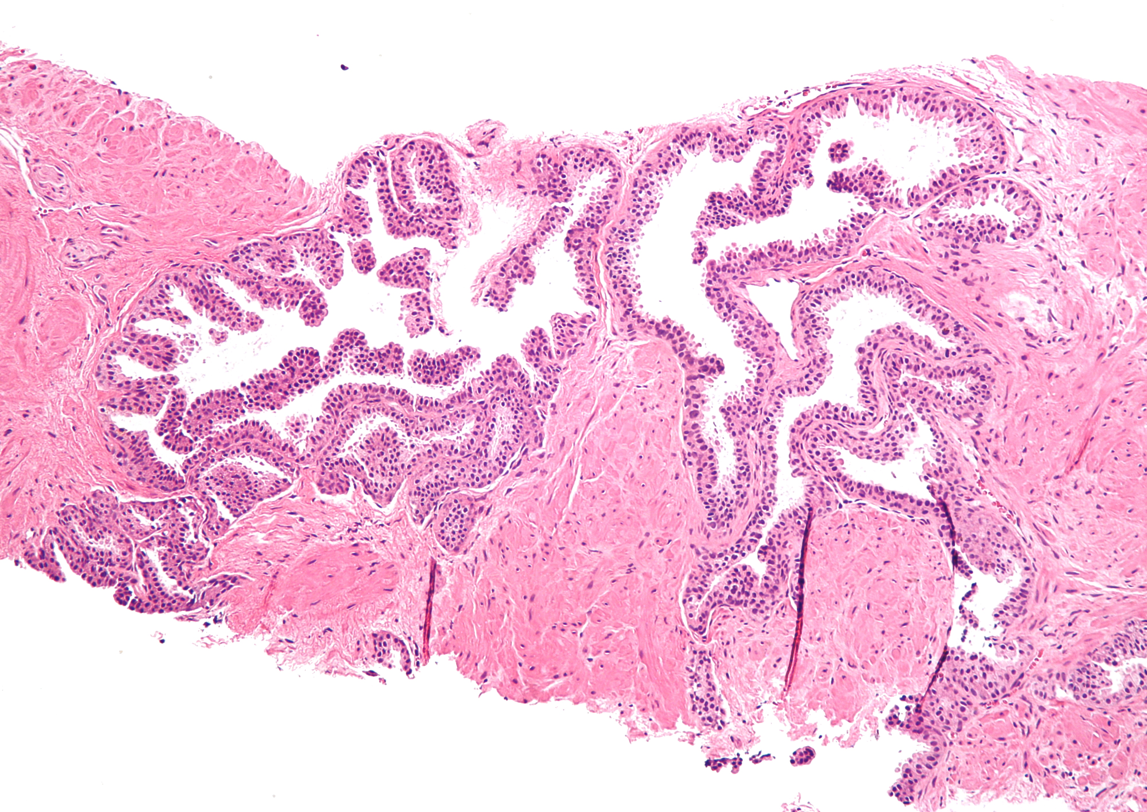 Micrograph of high-grade prostatic intraepithelial neoplasia, also known as prostatic intraepithelial neoplasia (abbreviated PIN). H&E stain. PIN is considered the non-invasive precursor lesion of prostatic adenocarcinoma. It has the cytologic features of prostate cancer (nuclear enlargement and nucleoli); however, unlike prostate cancer it has basal cells. Related images Low mag. Intermed. mag. High mag.